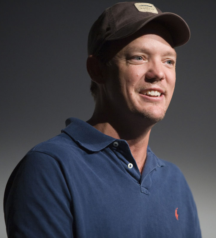 Matthew Lillard speaking at Vancouver Film School in August 2008.